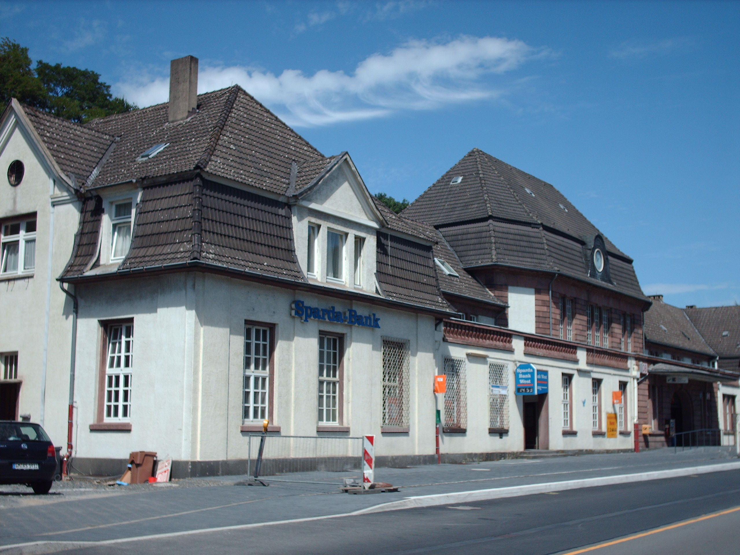 Dieringhausen station, Gummersbach, Germany check usage